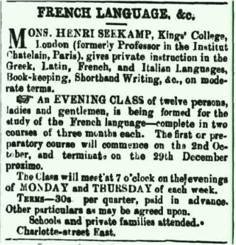 Henry Seekamp's advertisement in The Courier (Brisbane) from 16 September 1862 pg 3